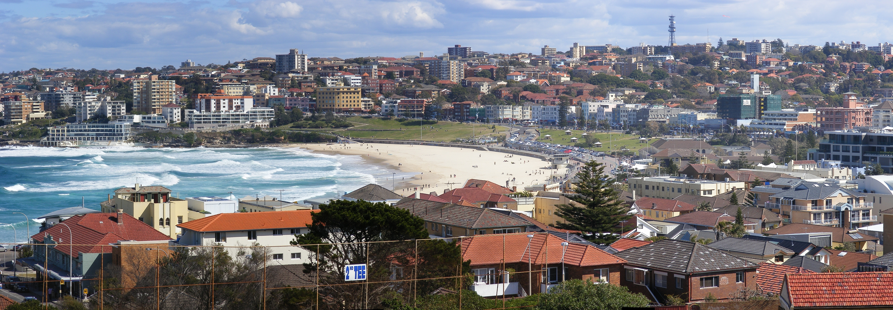 Bondi Beach, New South Wales